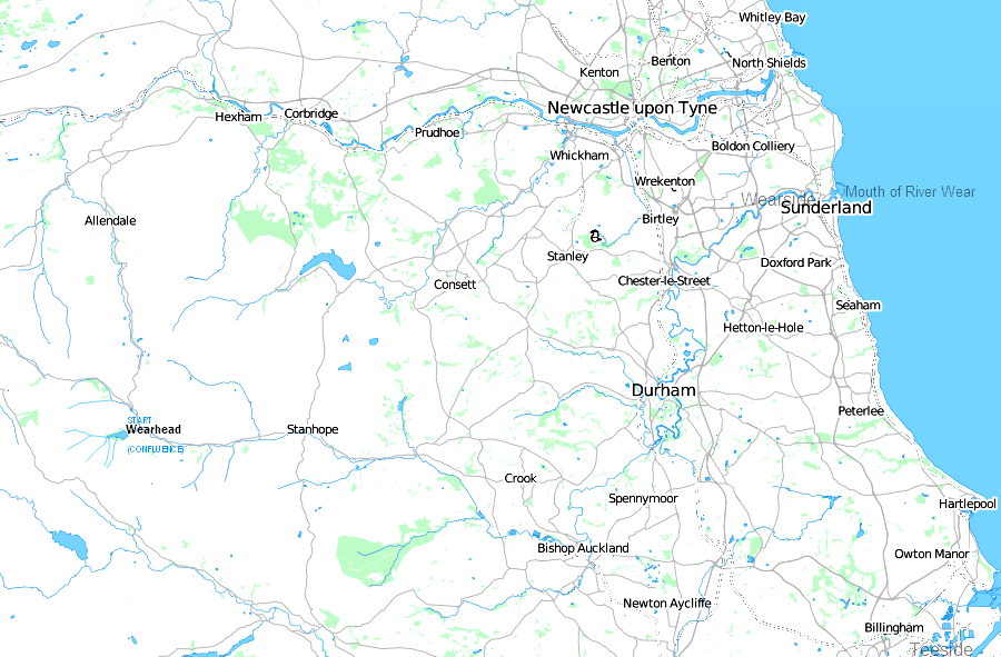 River Wear from Open Street with towns and roads only.